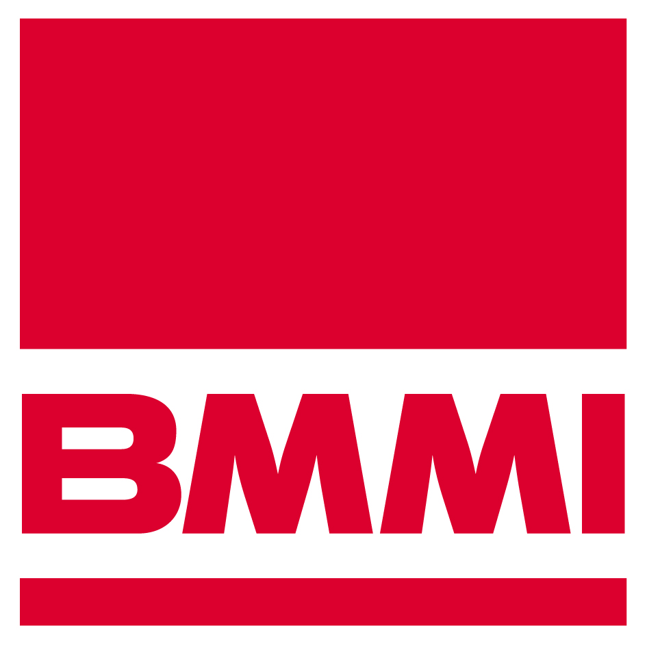 BMMI Company logo